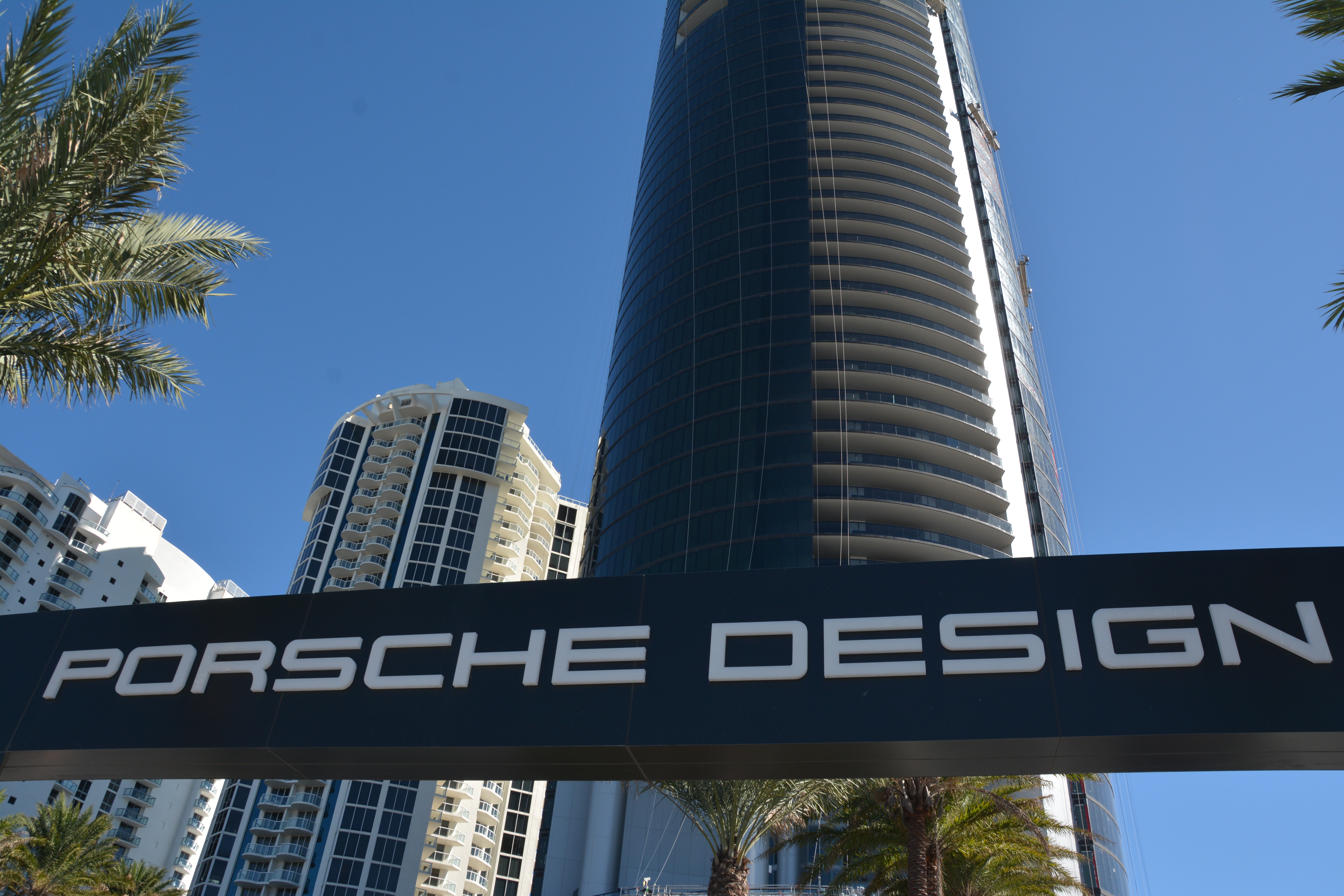 Porsche Design Tower near its completion in late 2016. In Sunny Isles Beach, Florida.